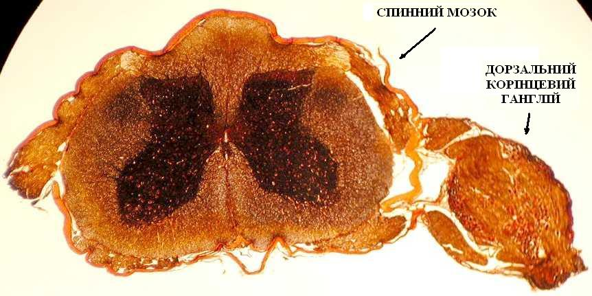 Histological preparation of DRG